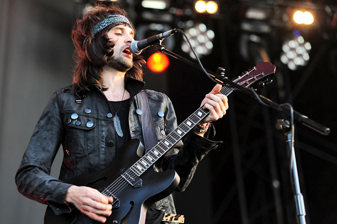 Sergio Pizzorno live at McCallum Park (05/02/2012)